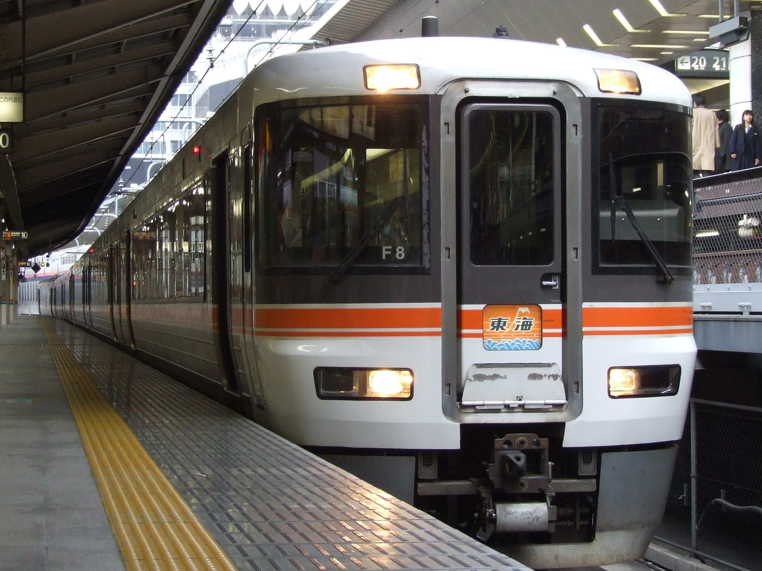 A JR Central 373 series EMU at Tokyo station on the Tokai 3 service to Shizuoka